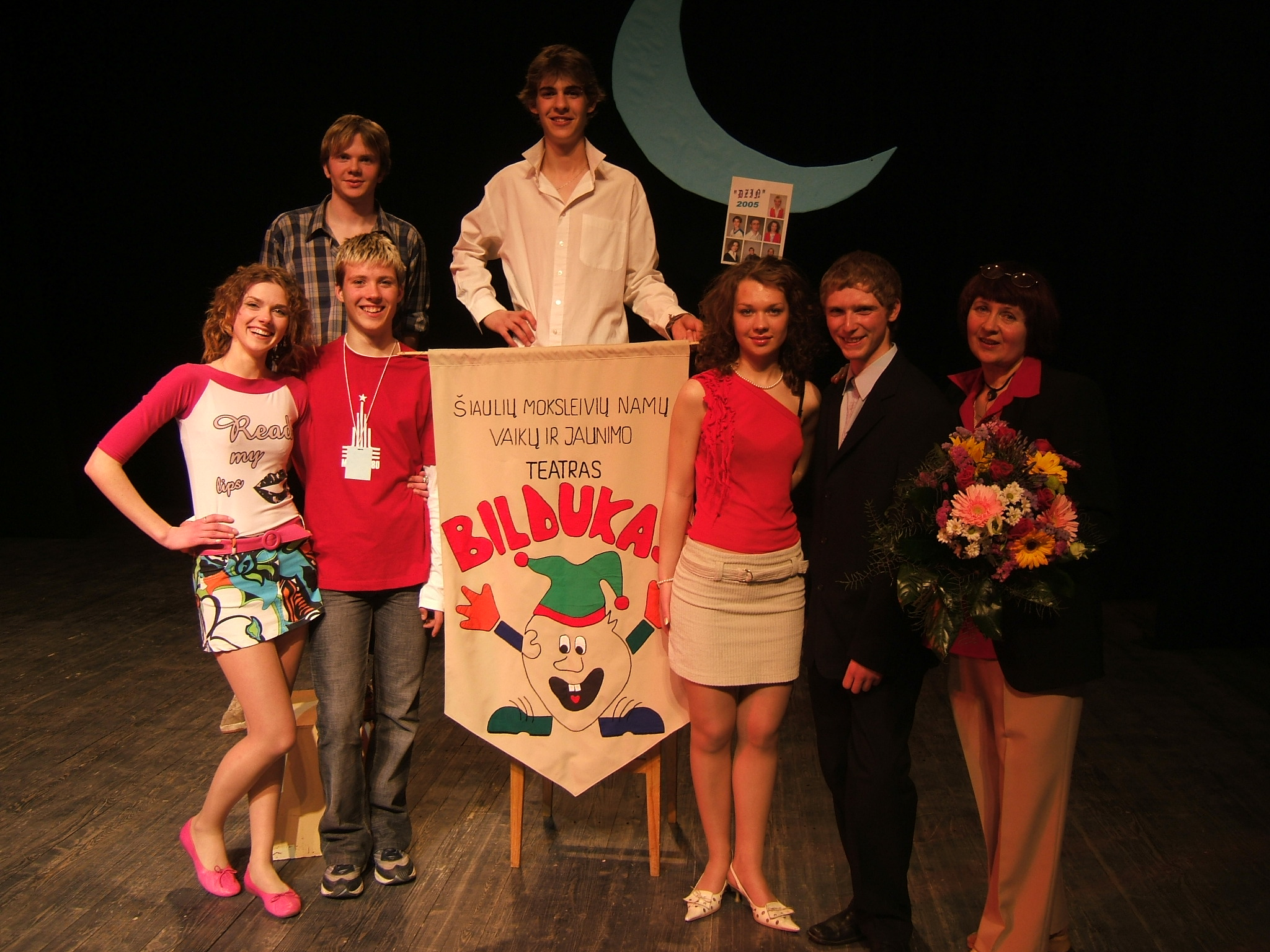 Teatras "Bildukas"